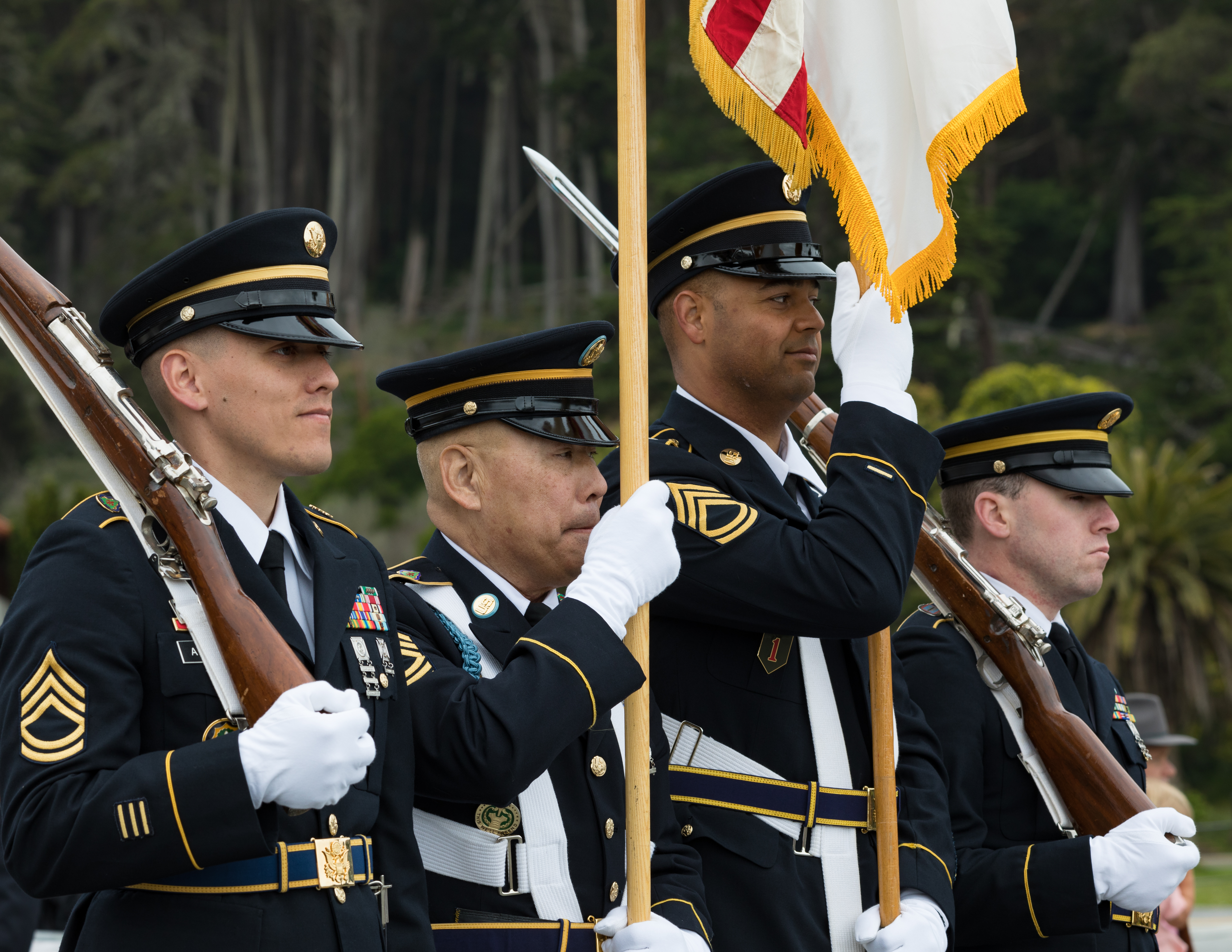 Memorial Day 2019 Commemoration in the Presidio of San Francisco: parade at the southwestern end of Graham Street